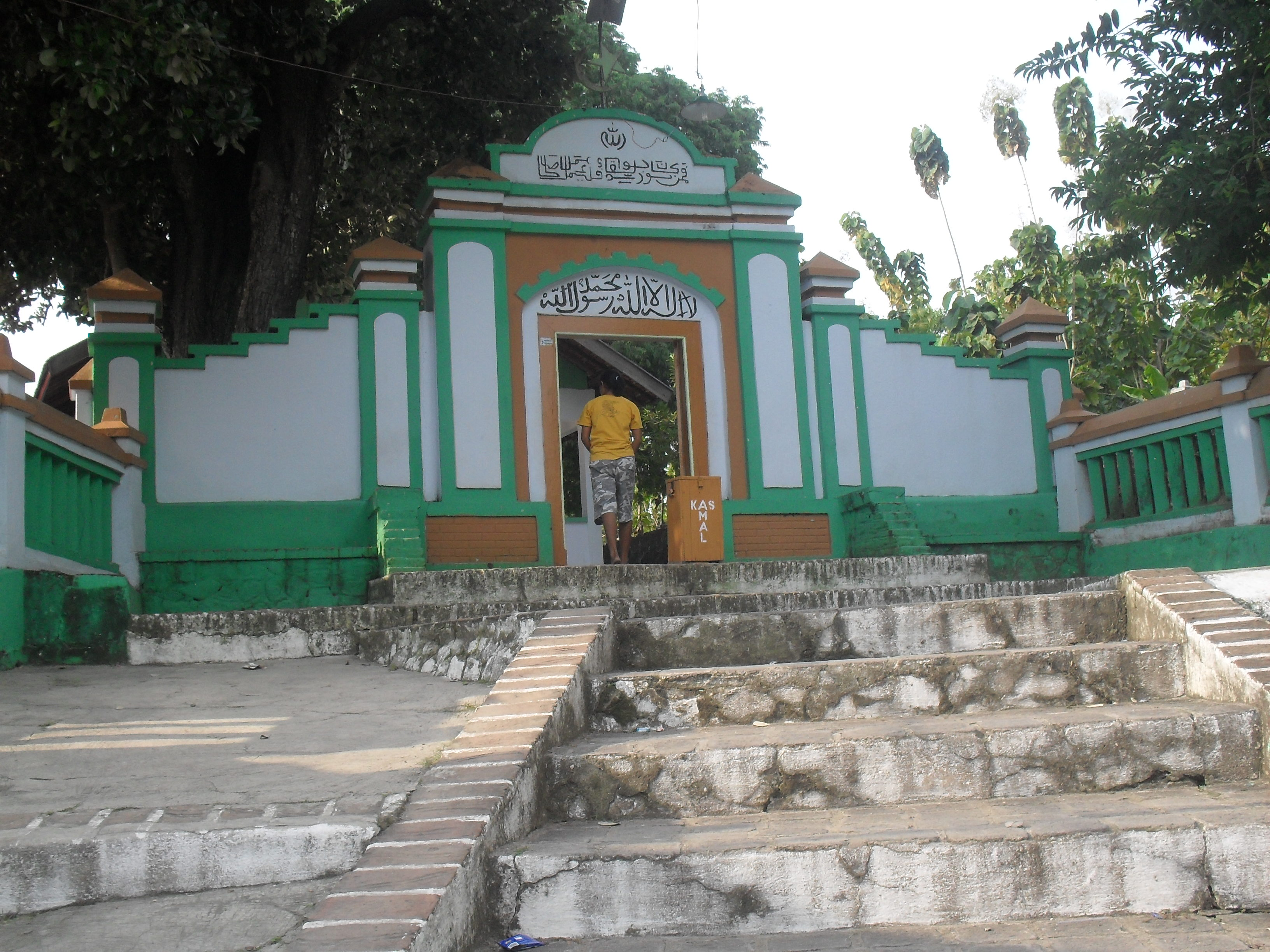 pintu menuju pasujudan sunan bonang